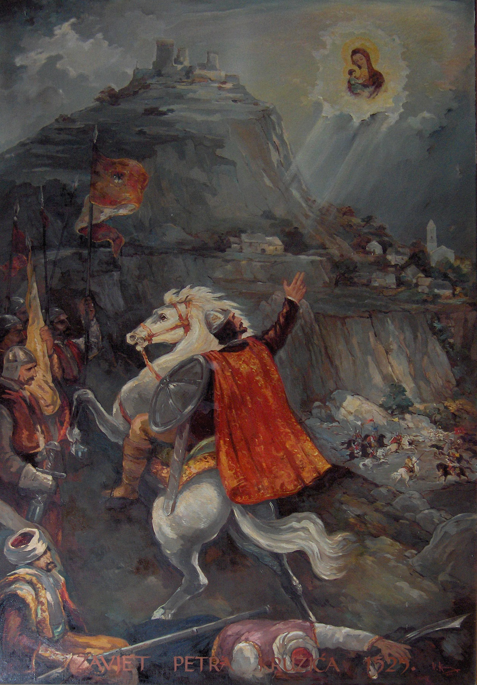 Petar Kružić defeats the Turkish army, guided by Our Lady of Trsat (1525); Church of Our Lady of Trsat, Rijeka, Croatia